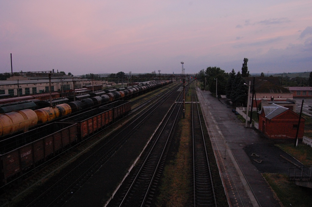 General view of Sil' station on Donetska railways